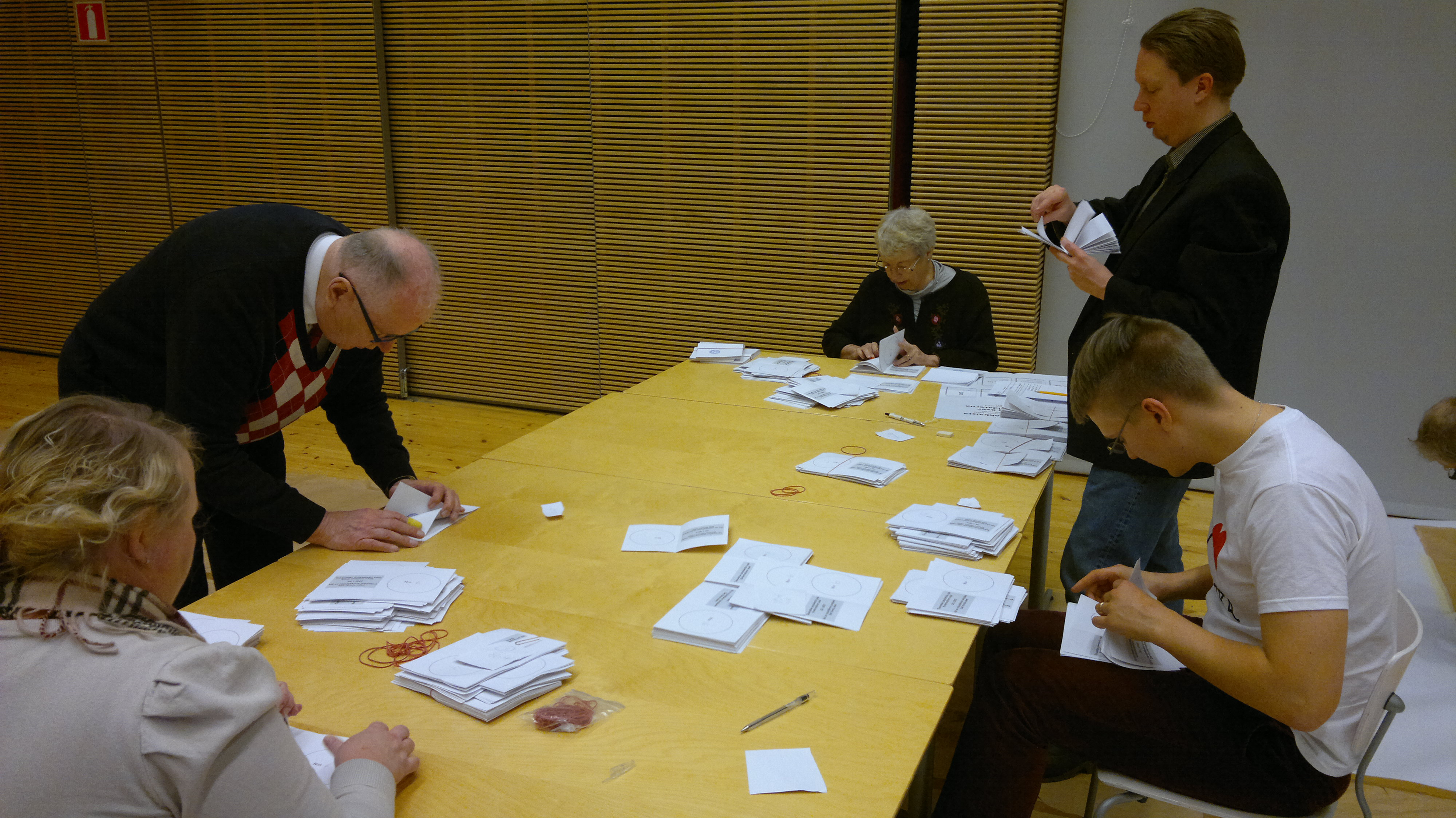 Finland's Presidential Elections 2012 vote count Helsinki City area